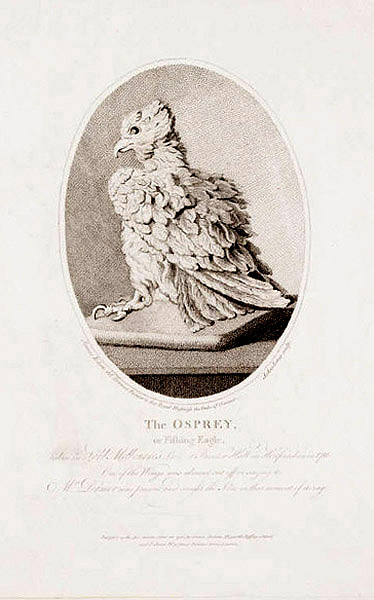 Folio engraving of The Osprey by Anne Seymour Damer, a sculpture given by the artist to Horace Walpole, who displayed it at Strawberry Hill.